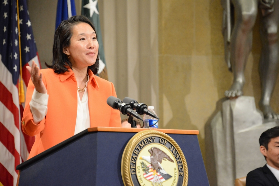 Jenny R. Yang, Chair of the Equal Employment Opportunity Commission, was the featured speaker at the Department’s 2015 Asian American and Pacific Islander Heritage Month Program. Ms. Yang shared accomplishments and challenges that confront the Asian American community and our Nation, today.